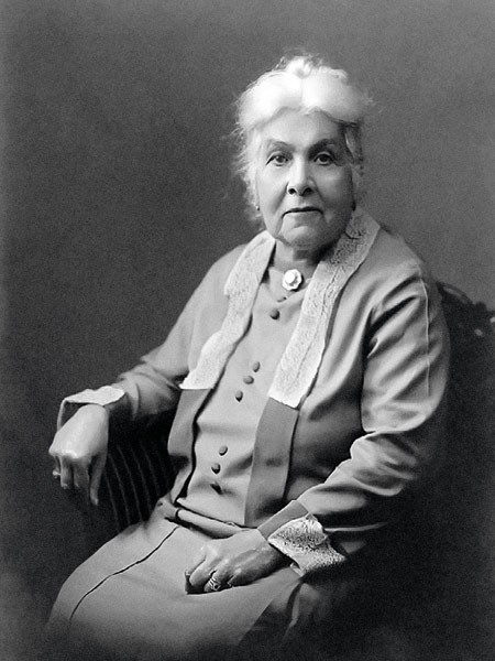 Armenia Ambassador to Japan Diana Aghabegyan.